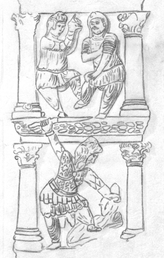 Dancing Indo-Scythians (top) and hunting scene (bottom). Buddhist relief from Swat, Gandhara. Photographical reference: "L'art du Gandhara", Mario Bussagli, ISBN 2253130559. Personal drawing 2006.